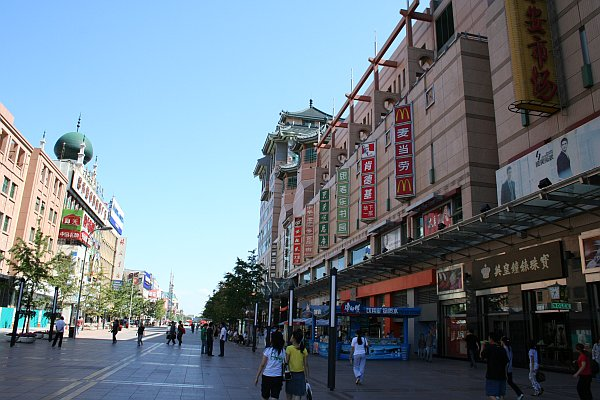 Wangfujing Street, a major commercial pedestrian area in Beijing